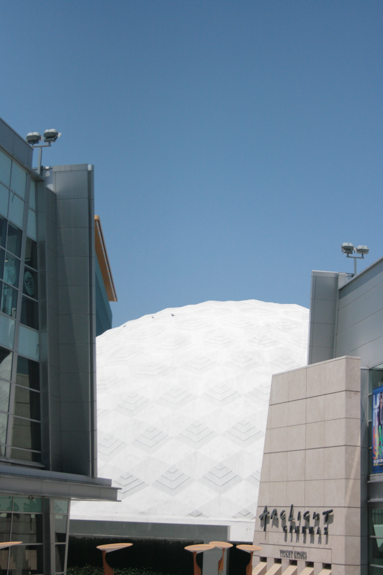 Photograph of ArcLight Cinemas and the Dome.